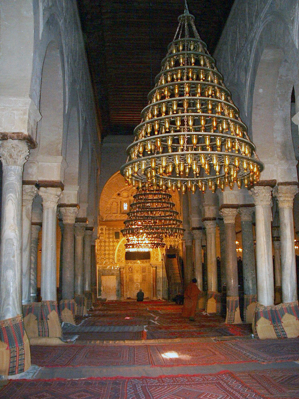 Ancient Roman columns and Mosque lamps in the Prayer hall—Great Mosque of Kairouan, Tunisia.